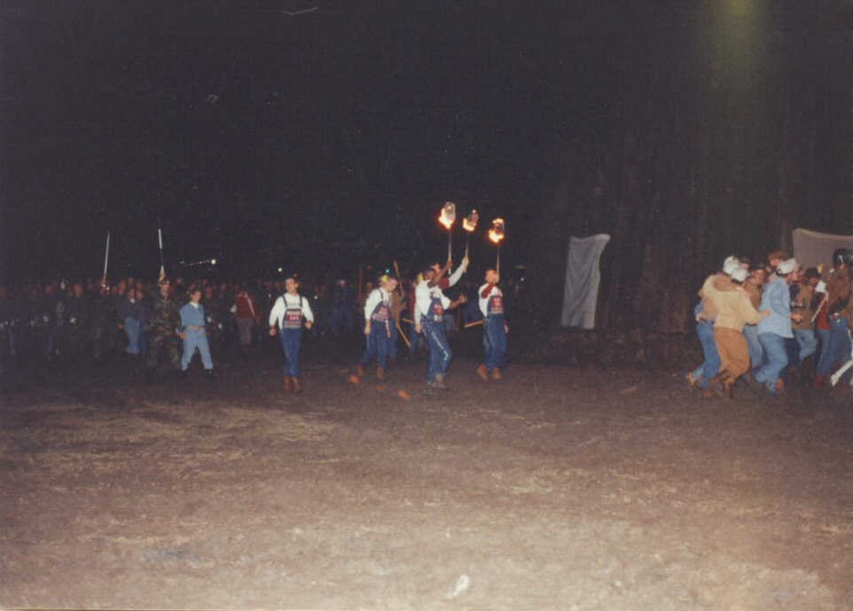 Texas A&M Yell Leaders following the Bonfire Redpots in 1992.